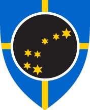 Small Coat of Arms of the city and municipality of Zvezdara in Belgrade, Serbia